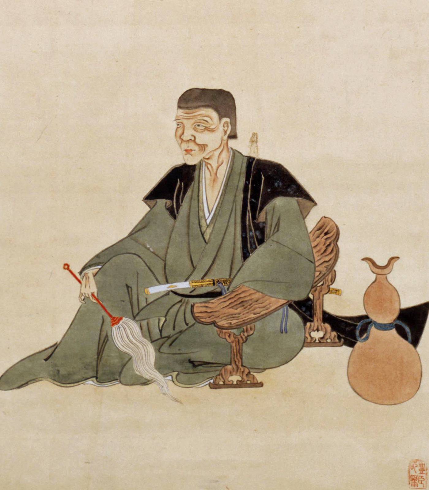 Kinosita Choushushi(1569-1649) was a Japanese Daimyo and Poet.